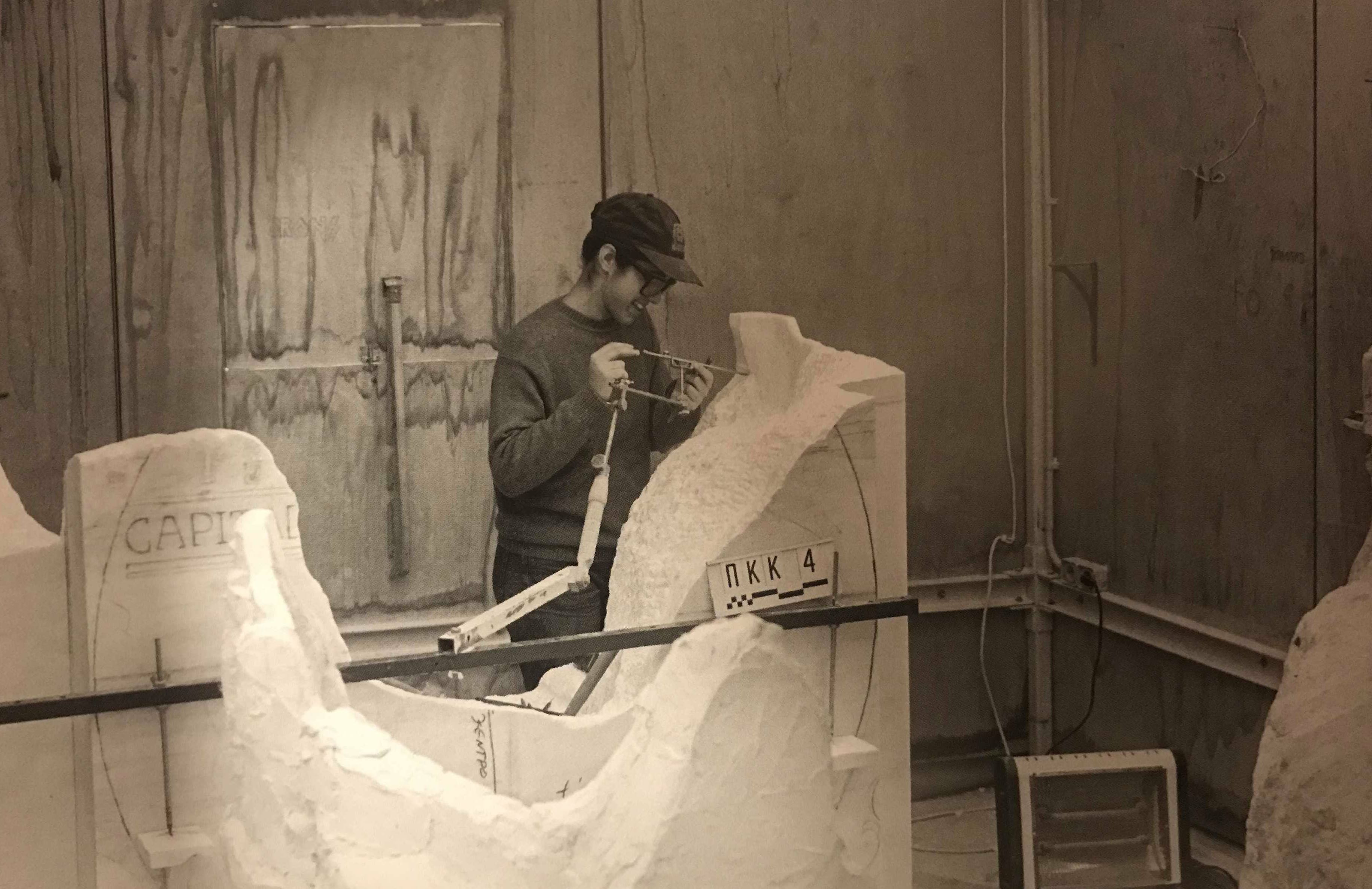 Restoration of the Acropolis monuments: The Parthenon. Shaping a column-capital filling from the pronaos with the use of a pointing device (2001).